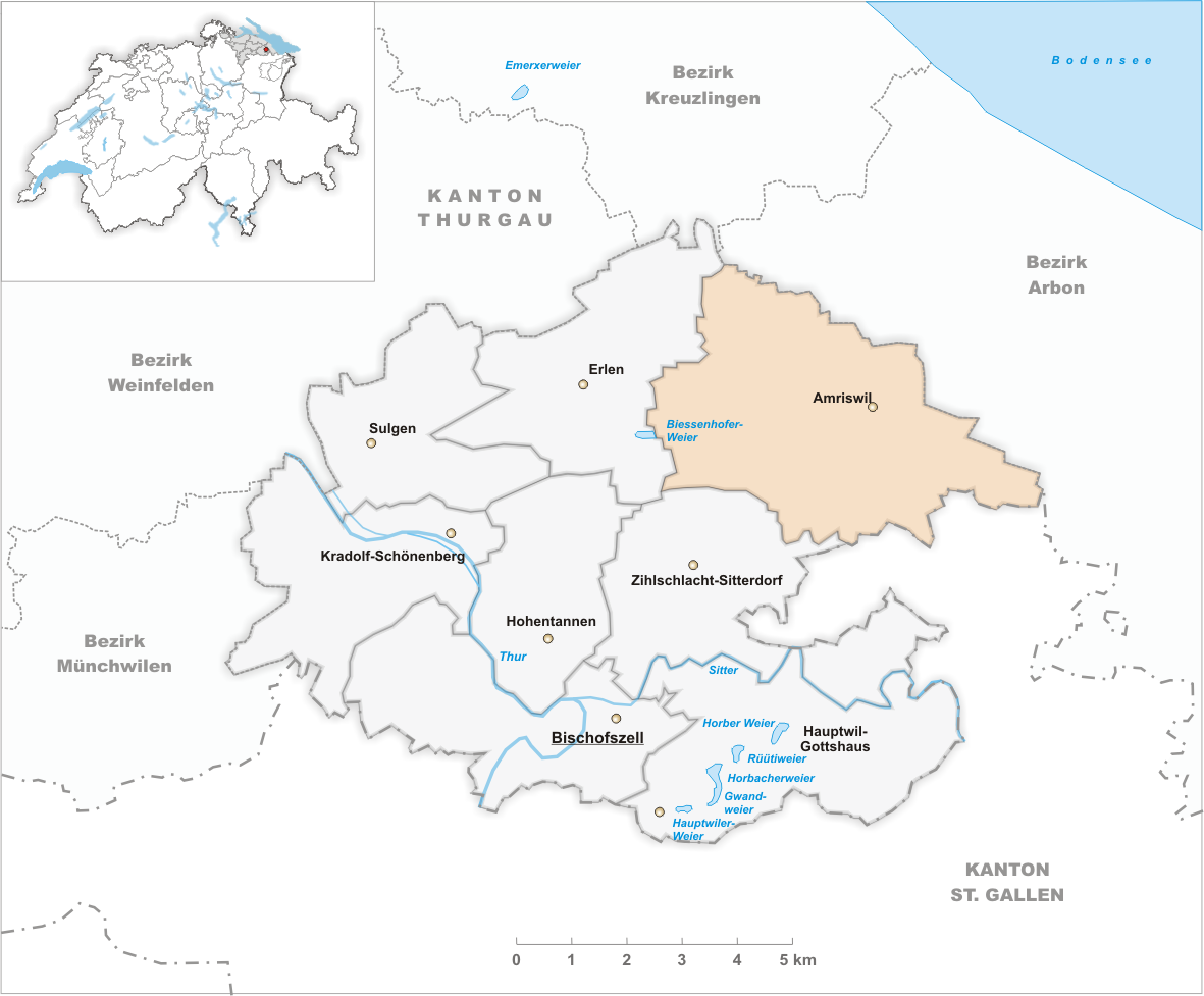 Municipality Amriswil